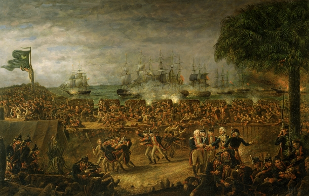 John Blake White’s The Battle of Fort Moultrie “portrays in a spirited manner the famous battle . . . fought and won against a formidable British fleet . . . just six days prior to the Declaration of Independence,” wrote Octavius White, the artist’s son. Octavius White donated this work to the U.S. Senate in 1901. He gave it to the nation, he said, “that the sons may know how their fathers fought to secure the precious boon of liberty.”[1] The painting presents a view of the battle from inside the American fort, with the British fleet firing at full force in the background. The artist inserted portraits of William Moultrie and Francis Marion in the right center foreground. William Jasper is seen defending the fort’s flag. At the center background, along the perimeter wall of the fort, is the artist’s own father, Blake Leay White, who is thought to have participated in the battle. White based his portraits on existing likenesses in South Carolina family collections and on his memory. According to White family tradition, the artist’s father and General Marion, known as the “Swamp Fox,” owned adjoining plantations. The young artist, it was said, would sit on Marion’s knee during visits. In 1899 Octavius White had presented three other Revolutionary War paintings by his father to the Senate: Sergeants Jasper and Newton Rescuing American Prisoners from the British, General Marion Inviting a British Officer to Share His Meal, andMrs. Motte Directing Generals Marion and Lee to Burn Her Mansion to Dislodge the British. Although White drew inspiration for these works from a biography of Francis Marion as recounted by Parson Mason Locke Weems, the artist’s source for the Fort Moultrie painting is less clear.